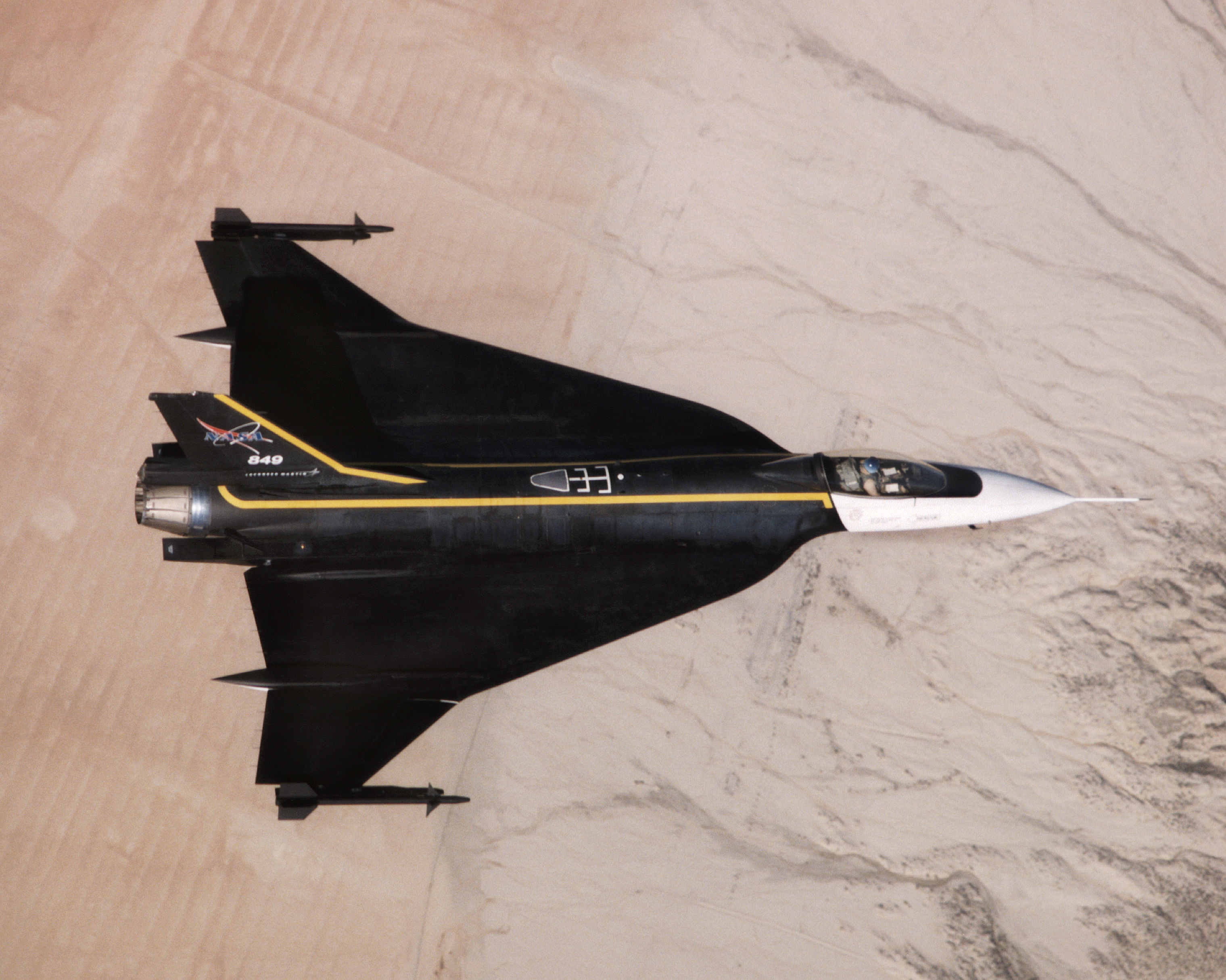 The F-16XL's unusual curved double delta wing platform is apparent in this photo. During the mid to late 1990s several research aircraft flew in dazzling paint finishes. A prime example was the F-15B ACTIVE, with its red, white, and blue markings. The F-16XL #1's finish in December 1997 was also eye catching. The wings, tail, and upper aft fuselage was black with yellow trim, while the forward fuselage was white. The F-16XL is testing a Digital Flight Control System (DFCS).